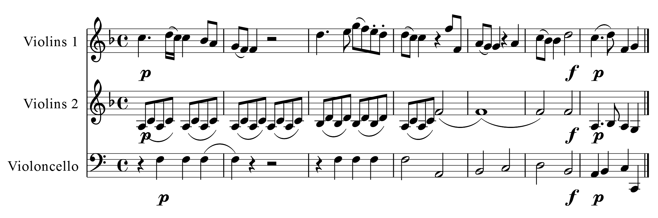 Symphony by unknown composer (formerly thought to have been written by W. A. Mozart, K.98), first movement, bar 1-7